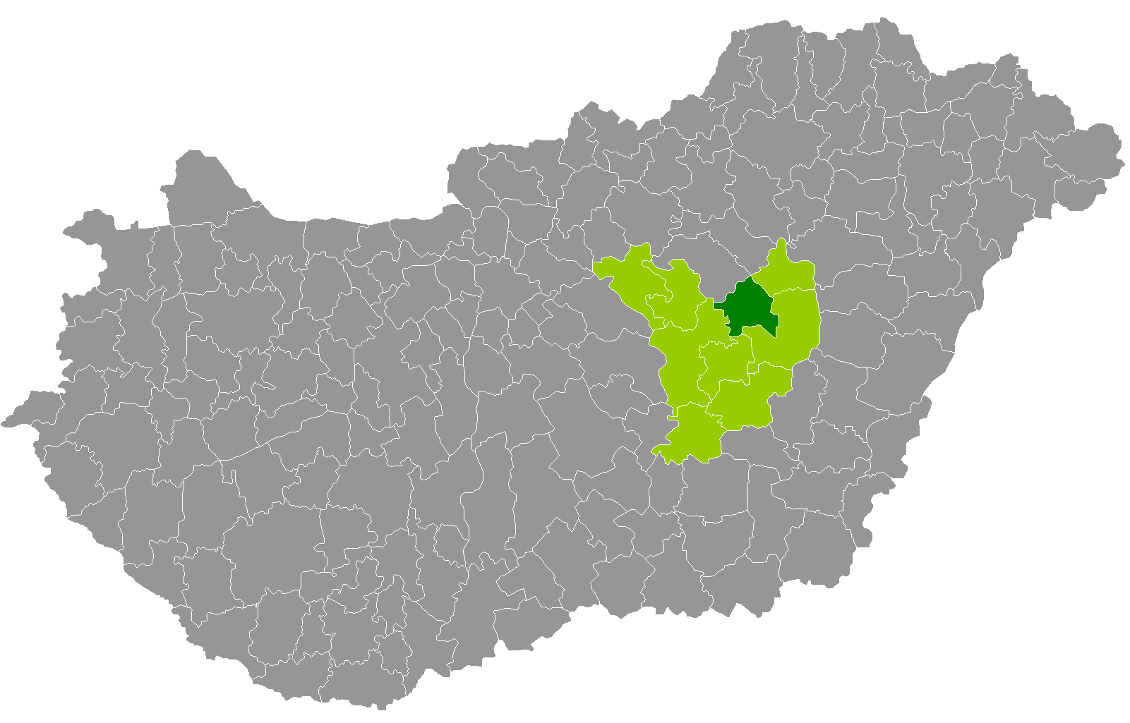 Location of Kunhegyes District, Jász-Nagykun-Szolnok, Hungary